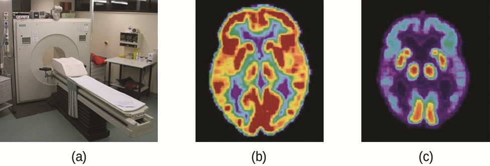 Image or illustration from the book: Chemistry Caption:Missing, please see book Book summary:Chemistry is designed for the two-semester general chemistry course. For many students, this course provides the foundation to a career in chemistry, while for others, this may be their only college-level science course. As such, this textbook provides an important opportunity for students to learn the core concepts of chemistry and understand how those concepts apply to their lives and the world around them. The text has been developed to meet the scope and sequence of most general chemistry courses. At the same time, the book includes a number of innovative features designed to enhance student learning. A strength of Chemistry is that instructors can customize the book, adapting it to the approach that works best in their classroom.